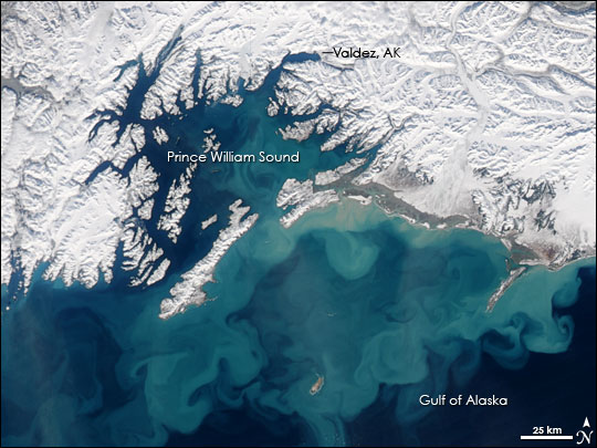 NASA Earth Observatory - Swirling Sediment in Gulf of Alaska